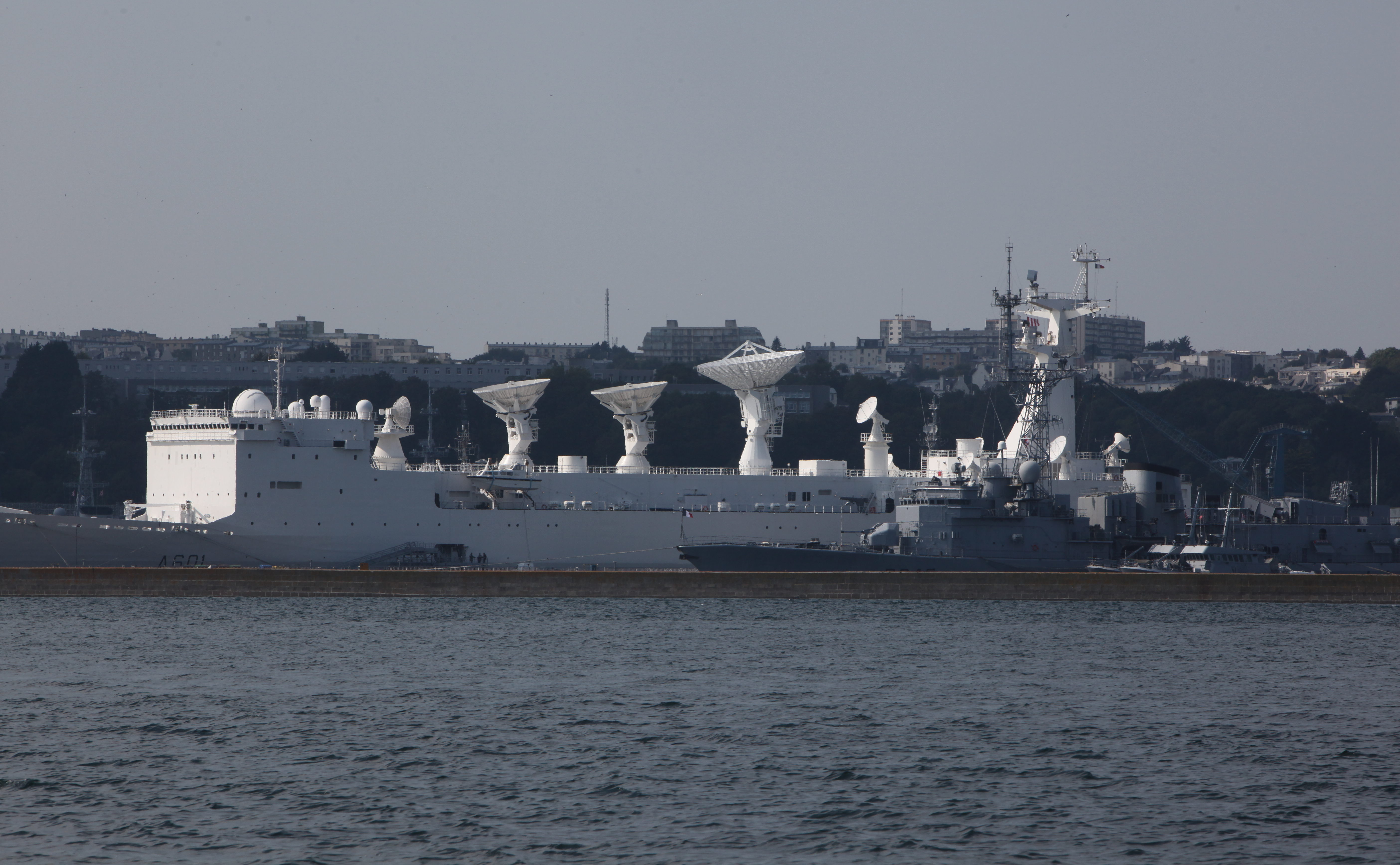 The telemetry ship Monge in Brest harbour